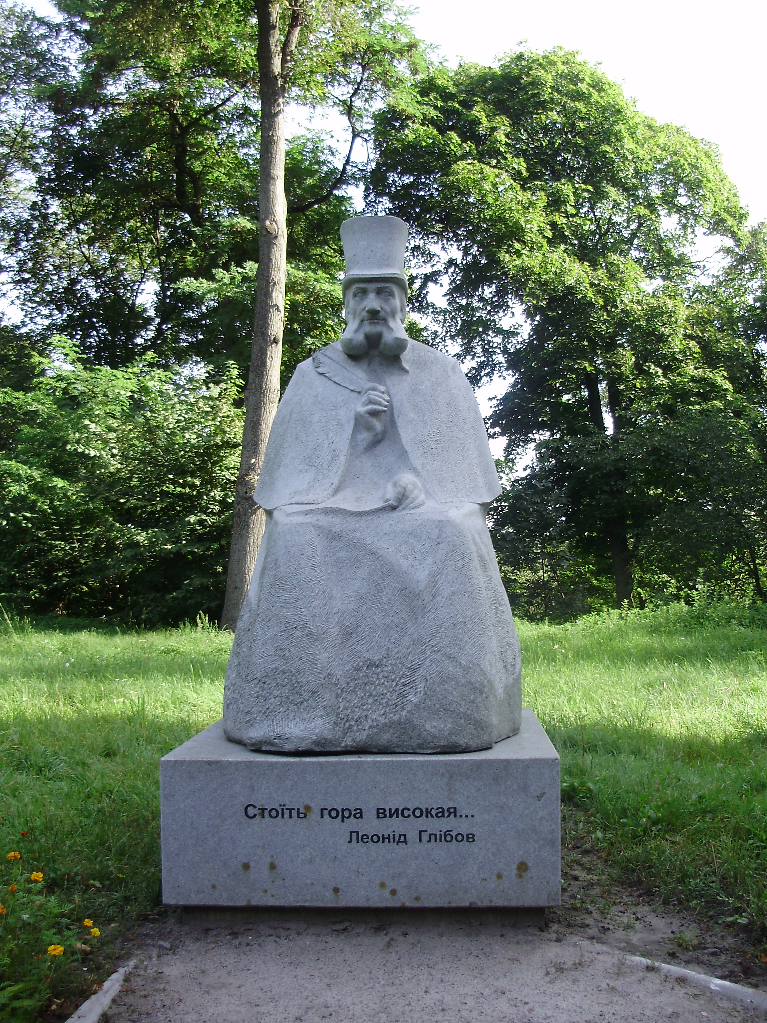 Leonid Glibov Monument in Sedniv